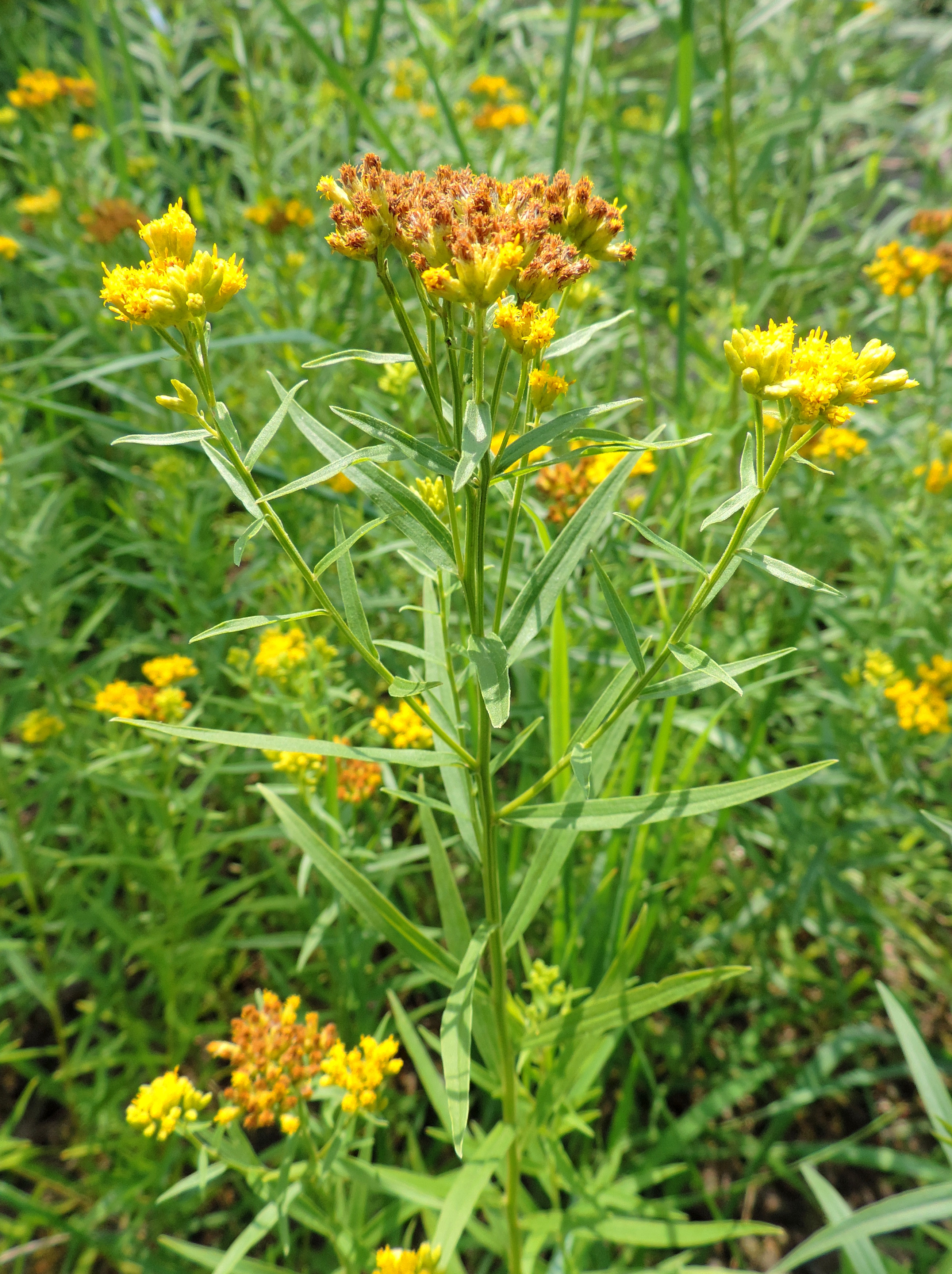 Euthamia graminifolia